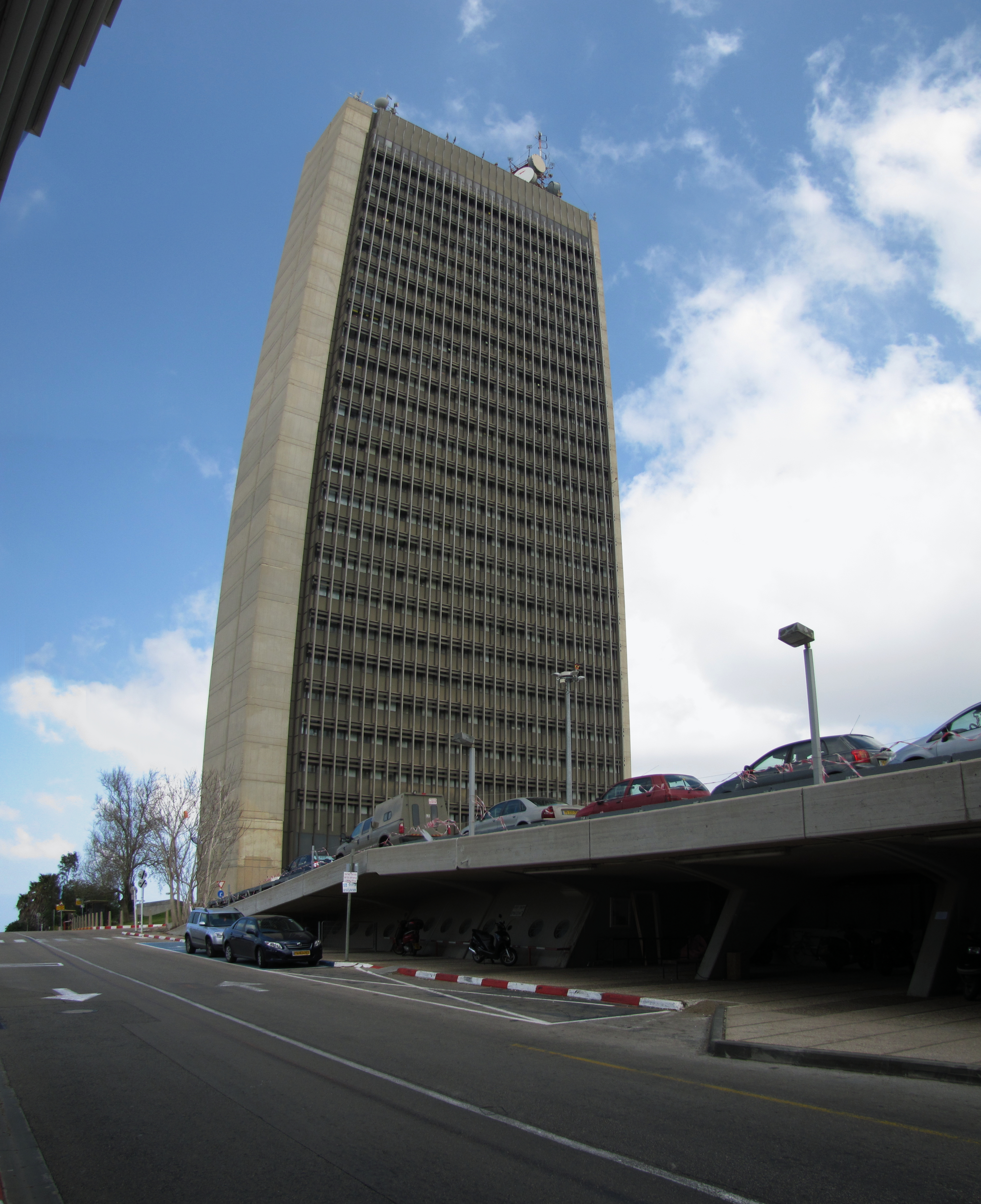 Eshkol Tower in The Spring, University of Haifa, Israel